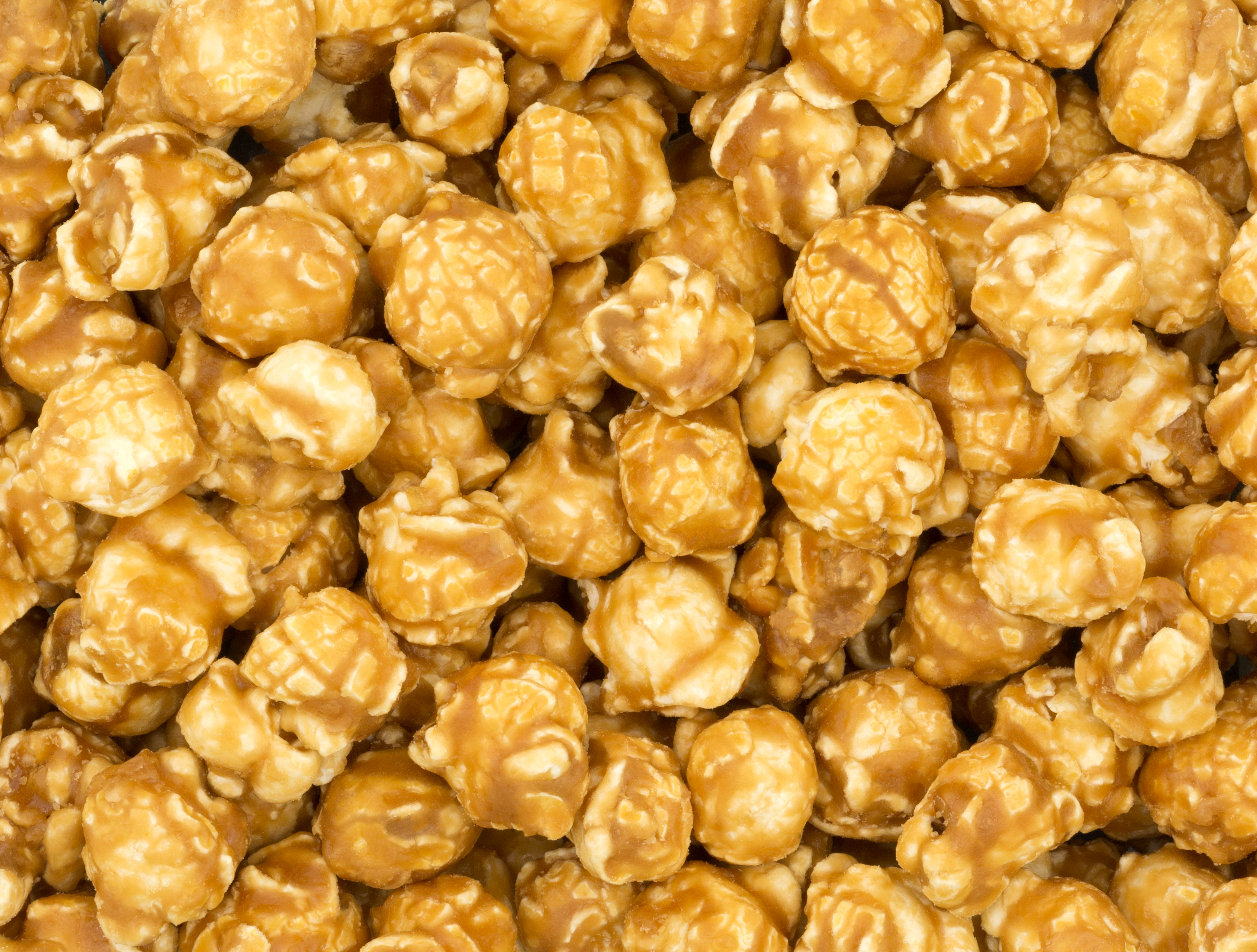 A pile of caramel corn, made by G.H. Cretors and bought in a supermarket in New York.